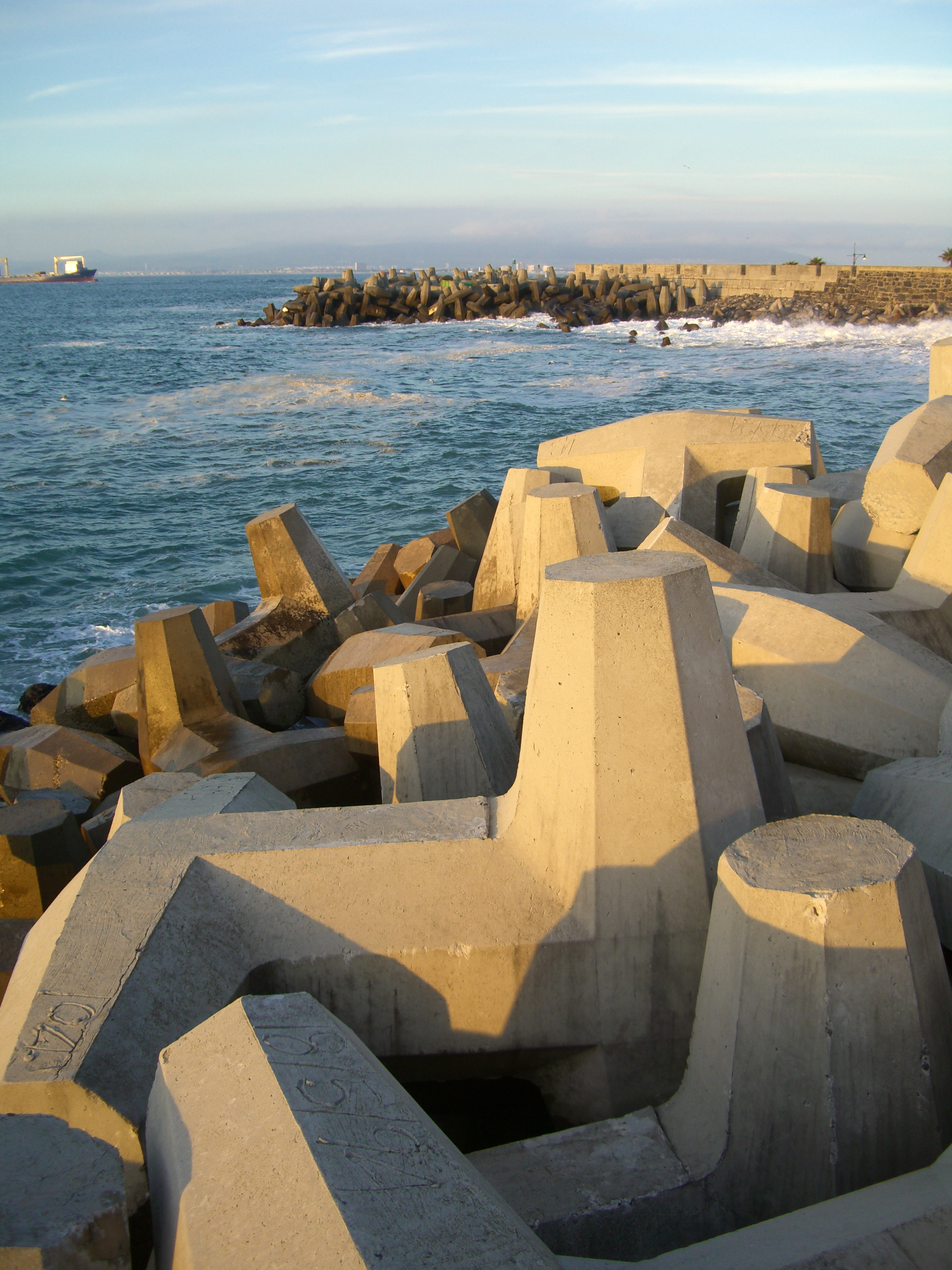 Adam Brink, Cape Town, 26 July 2006.